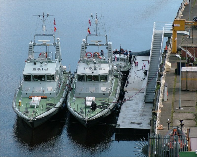 HMS Archer (P264) and HMS Example (P165), Archer class fast patrol boat - at HMS Calliope - Gateshead - River Tyne - England - by and copyright Tagishsimon 14th August 2004